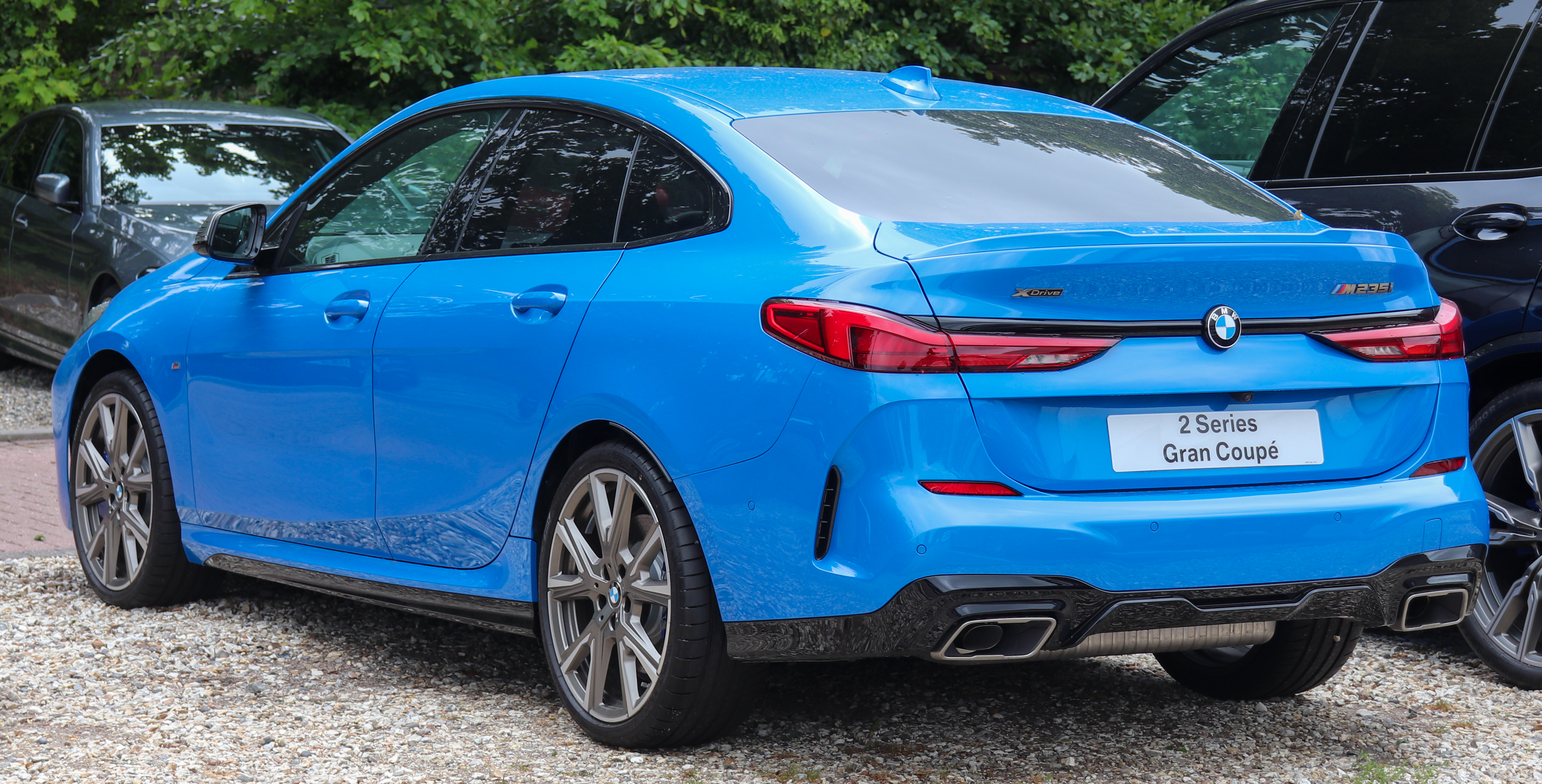 2020 BMW M235i xDrive Gran Coupe Rear Taken in Leamington Spa